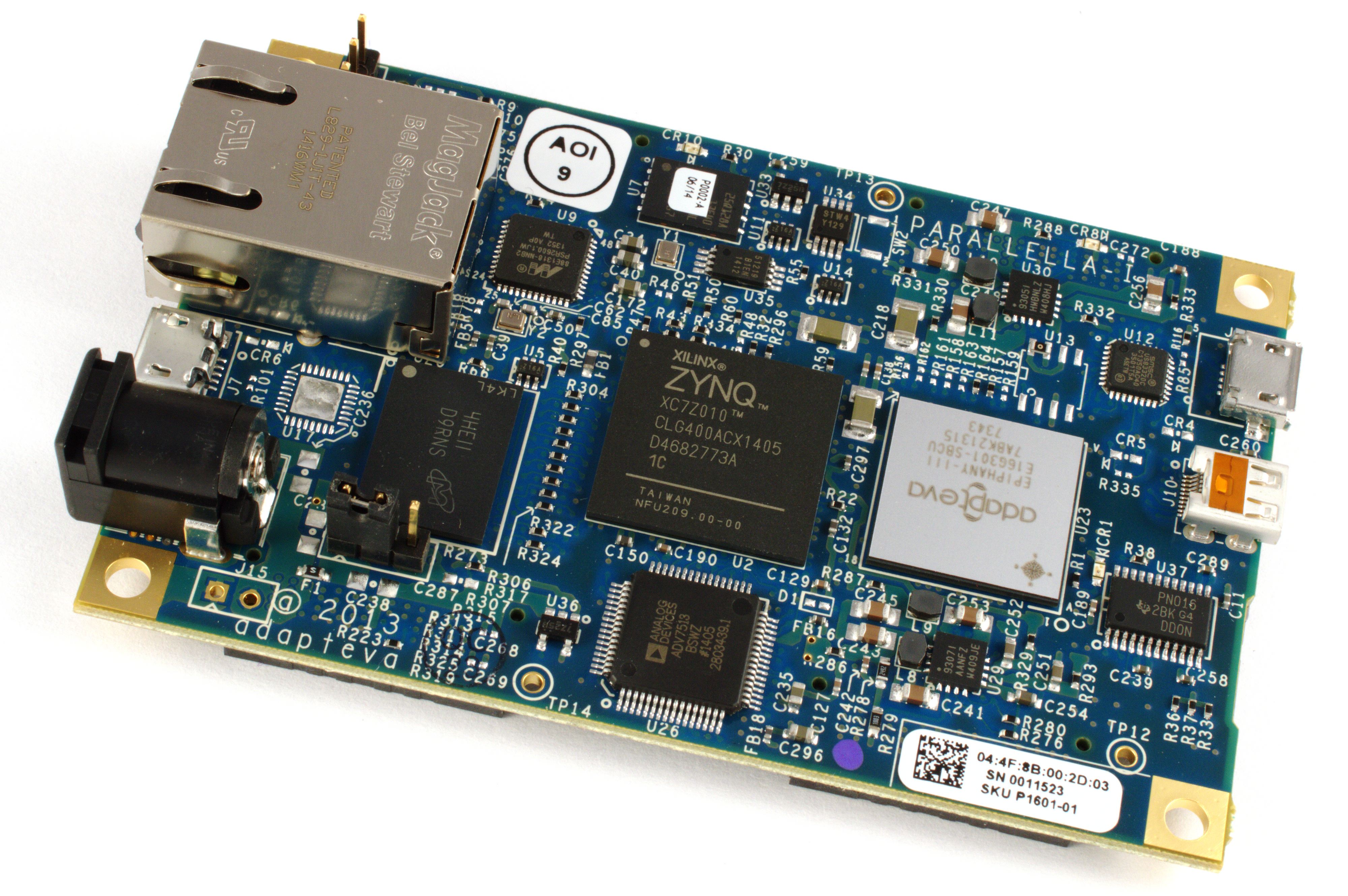 The Adapteva Parallella P1601-DK02 development board, featuring Xilinx Zynq 72010 ARM/FPGA and Adapteva's own Epiphany-III 16-core co-processor. Supplied as a review sample by RS Components.